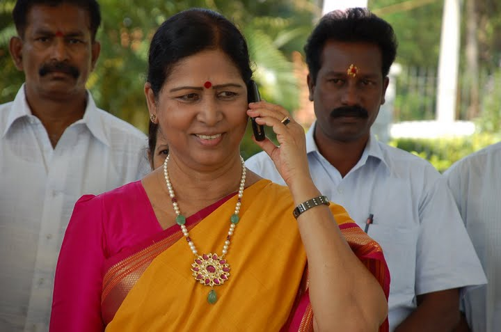 This picture has been taken by me during ugadi in our village.